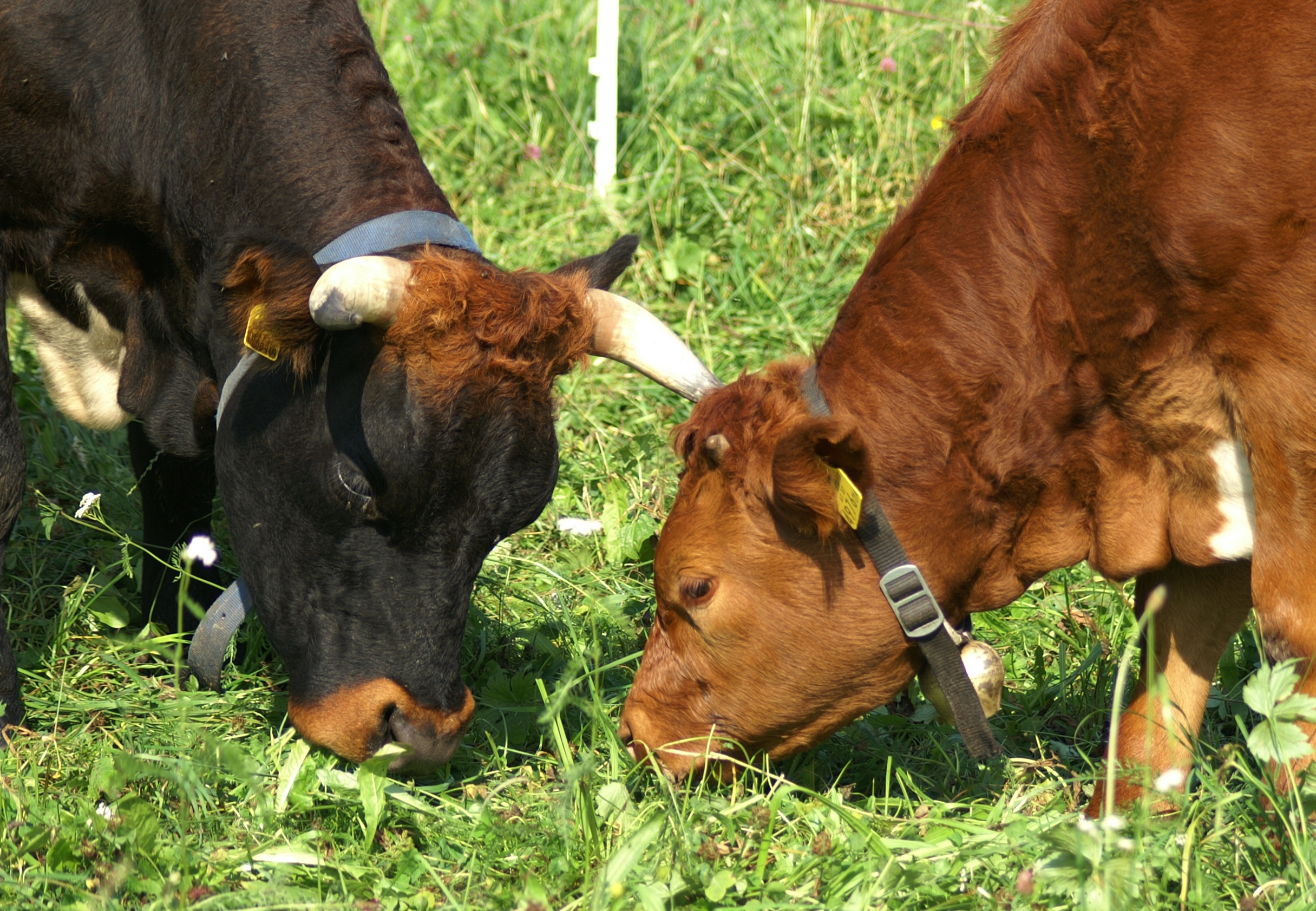 The Tux Cattle is a cattle breed that is particularly common in the alpine region. It is one of the old endangered cattle breeds. Tux is a village in the Tux Valley in Tyrol in Austria.